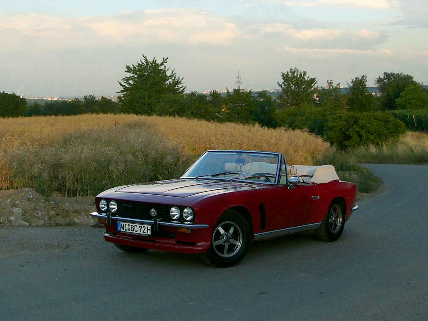 Jensen Interceptor III Convertible (1974), Series 4 Front Spoiler